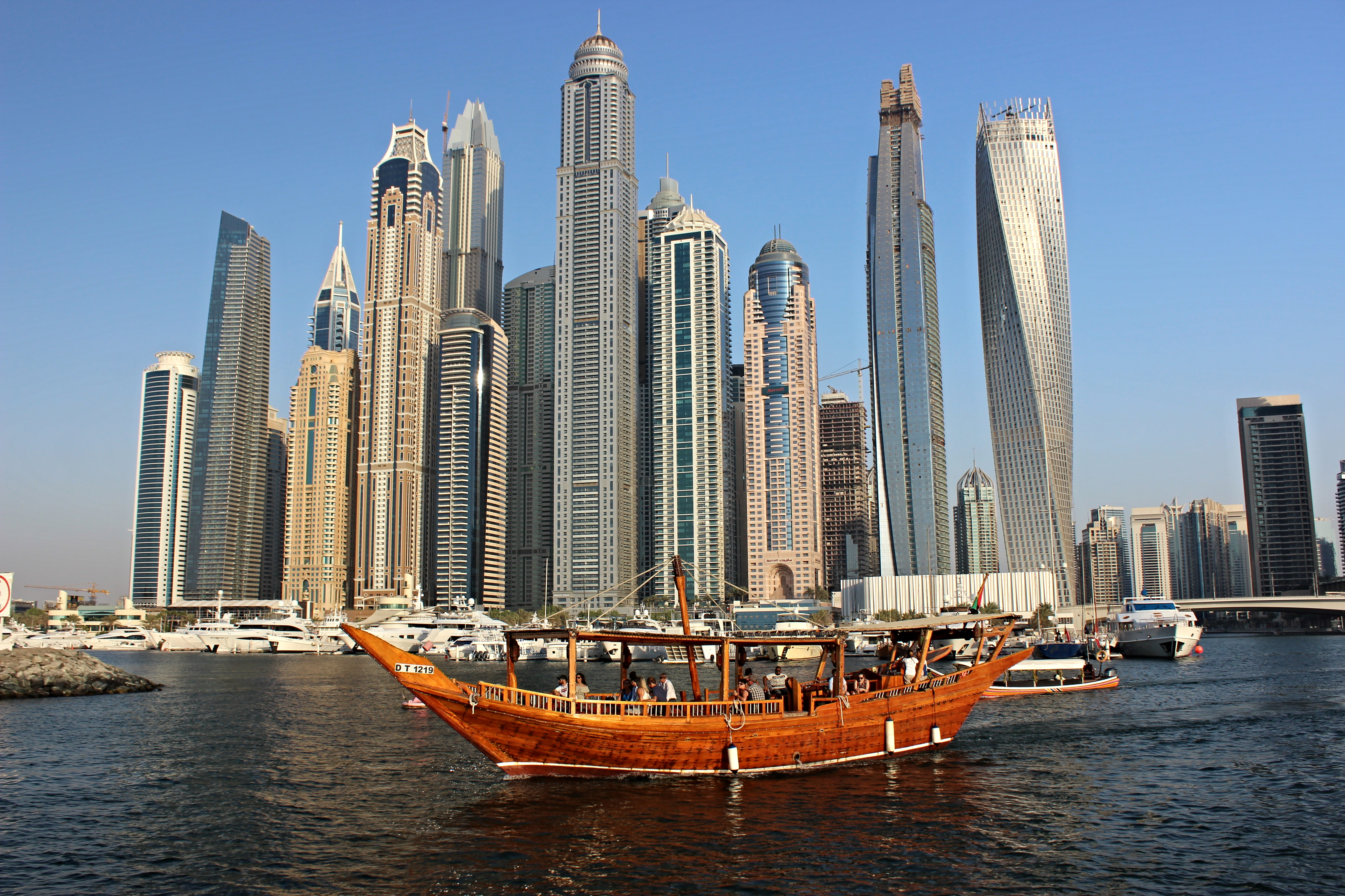 The tallest block is located on the western side of Dubai Marina, the block is known as the tallest block of supertall skyscrapers in the world.